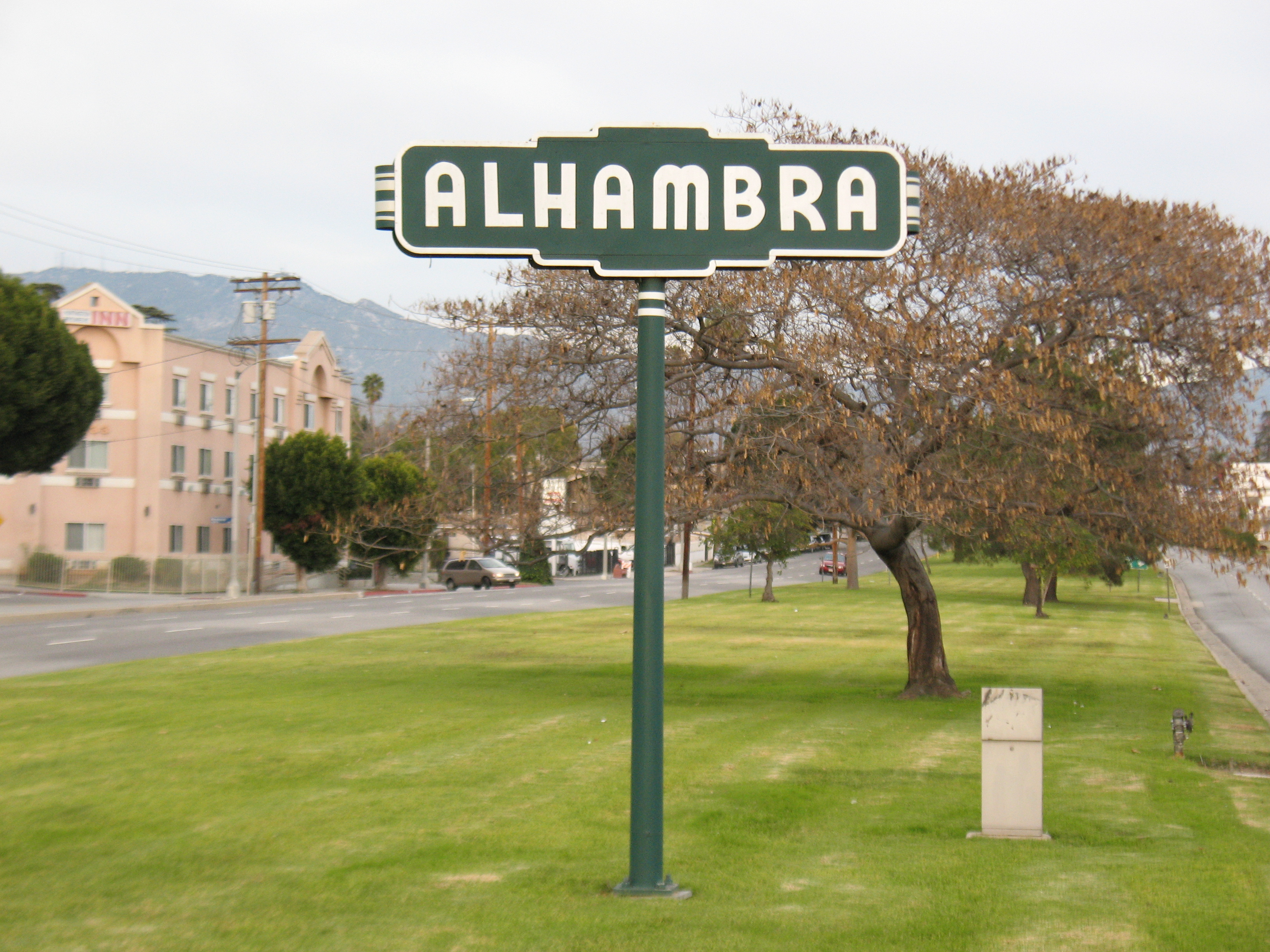 a welcome sign Слика:Alhambra